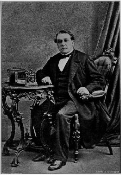 Mathers Byles Almon, founder of the Scotiabank